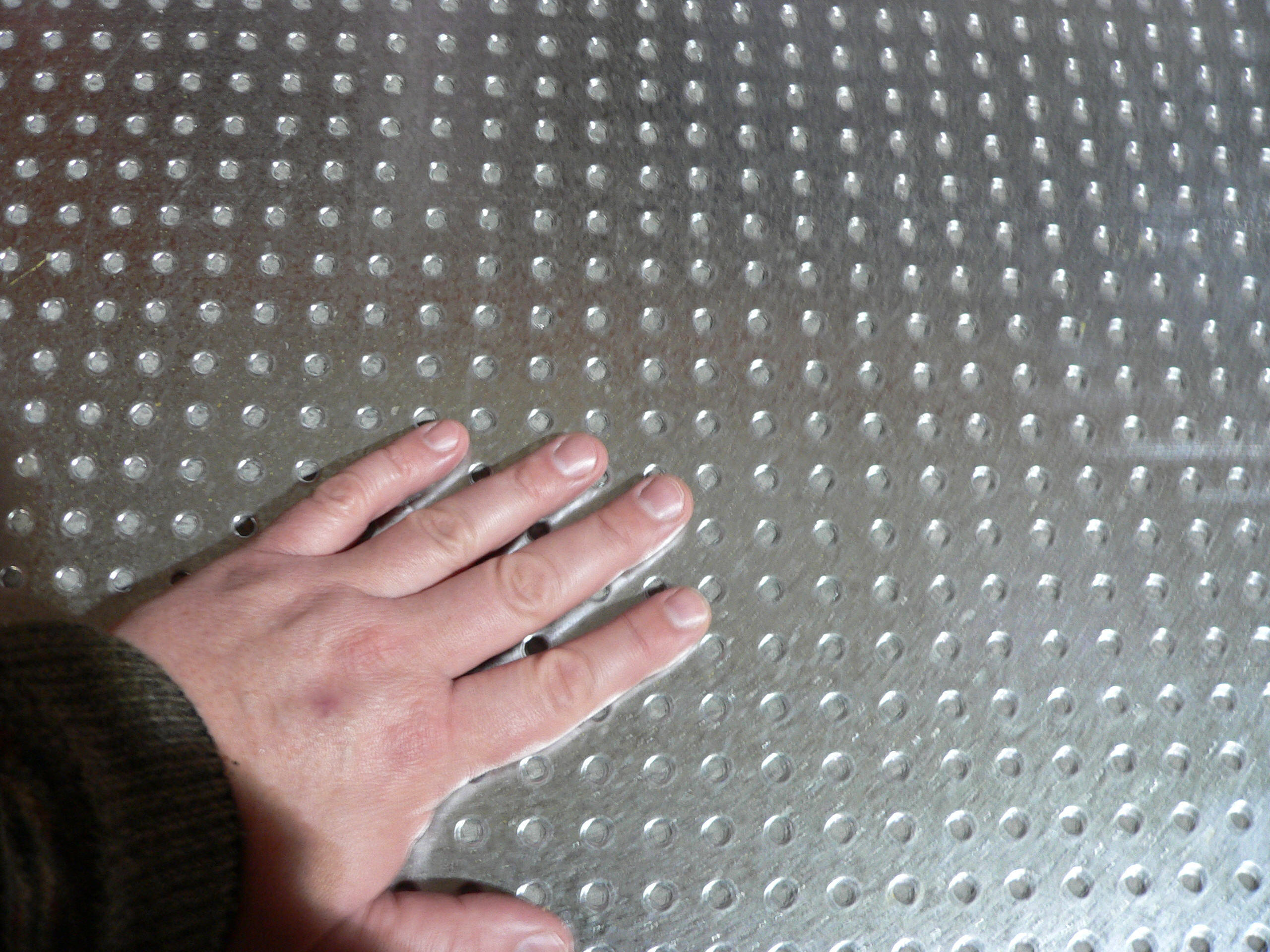 Durasteel composite board, made of mechanically bonded fibre-reinforced concrete and punched sheet metal (available in galvanised as well as stainless steel - this sample uses galvanised sheet metal), used in passive fire protection and blast resistance applications.